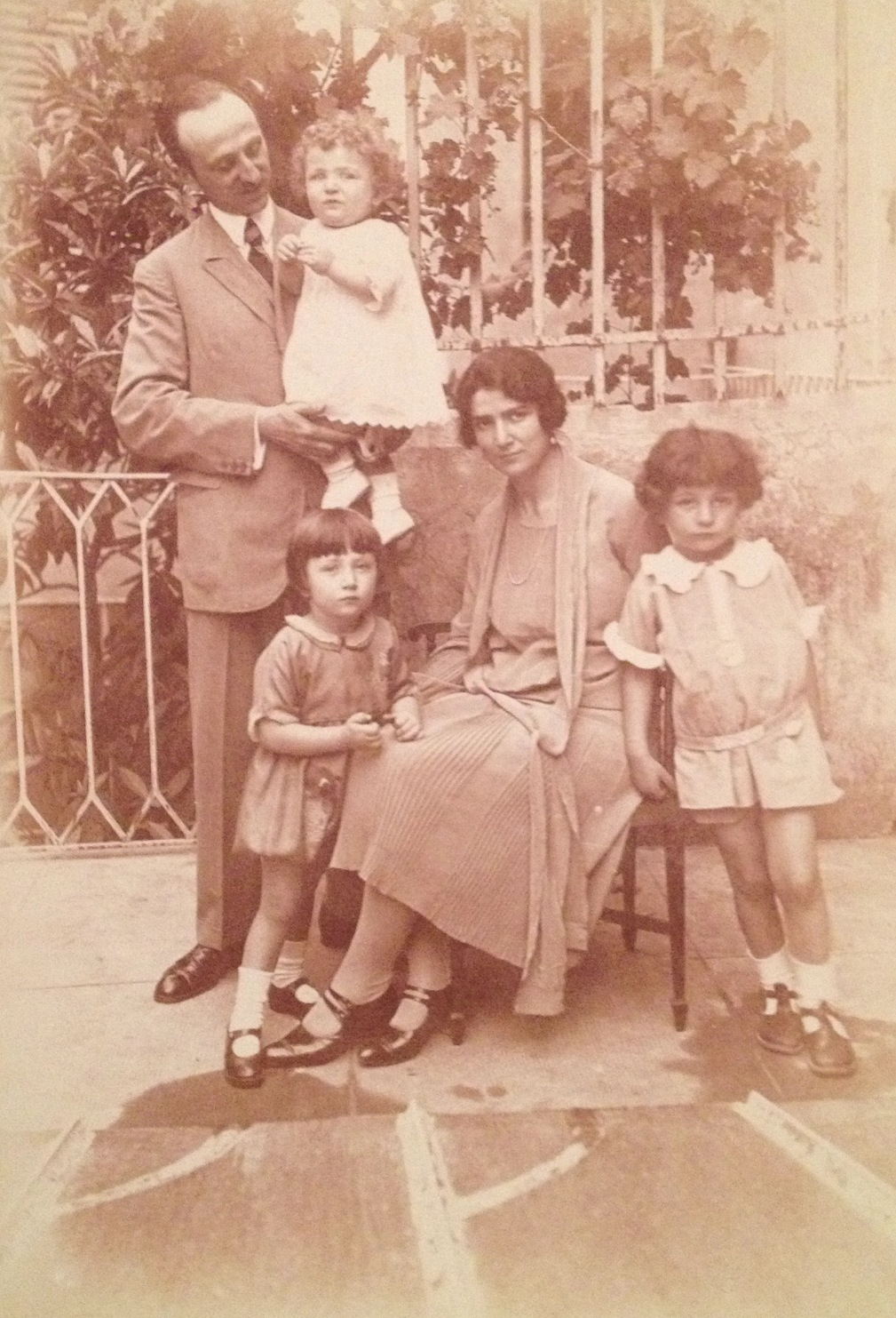 Spadolini Family